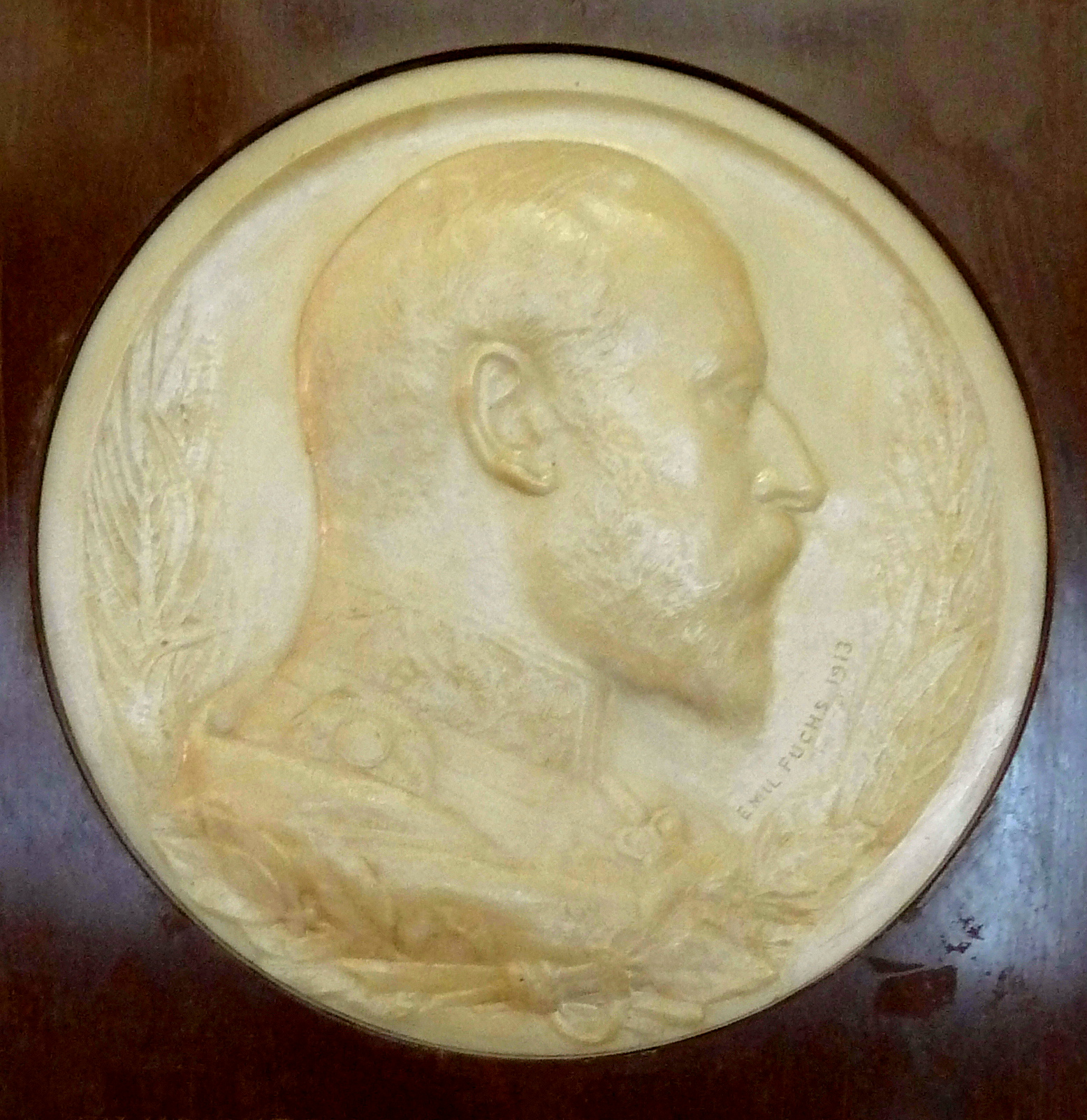 Kings Hall, Herne Bay, Kent England. Marble medallion plaque of Edward VII of the United Kingdom, 1913 by Emil Fuchs. The attached dedication says:"This medallion was unveiled and the building formally opened by Her Royal Highness Princess Henry of Battenburg on behalf of her most gracious majesty Queen Alexandra by whose gracious permission it was named "The King Edward VII Memorial Hall". 10th July AD 1913"